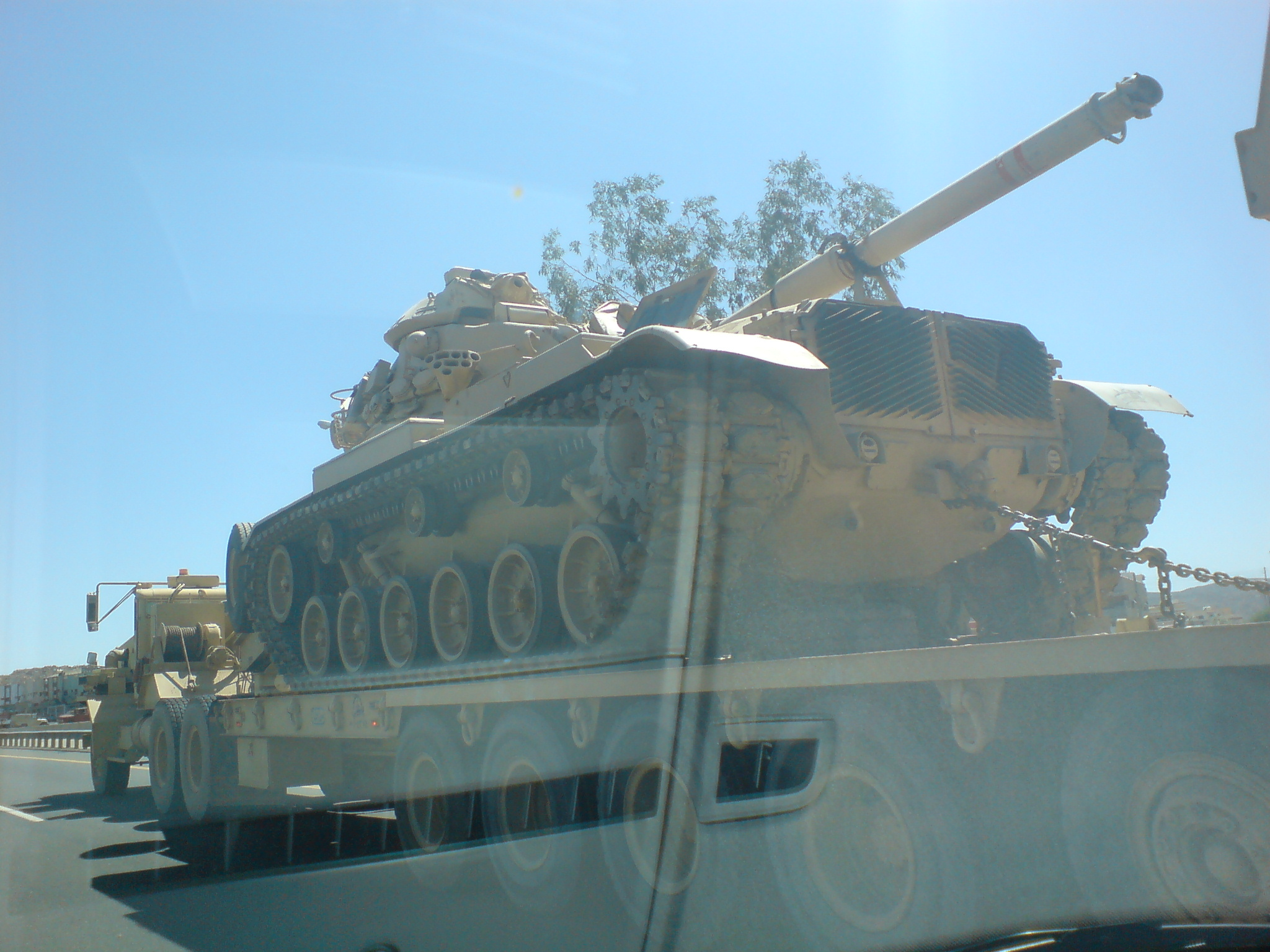 A Royal Saudi Land Force M60A3 tank being transferred